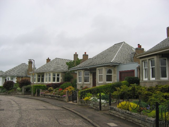 Bungalows, Comiston. Prewar suburbia above the Braidburn. This is typical low density housing in Edinburgh.